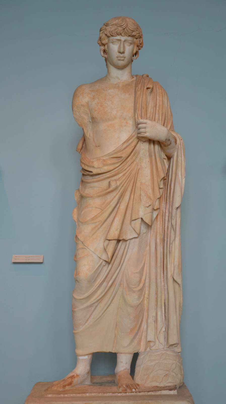 Statue of the deified Antinous represented as Asklepios, found in the outer court of the sanctuary which it apparently adorned, 2nd century AD, Archaeological Museum of Eleusis